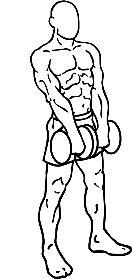 an exercise of shoulders